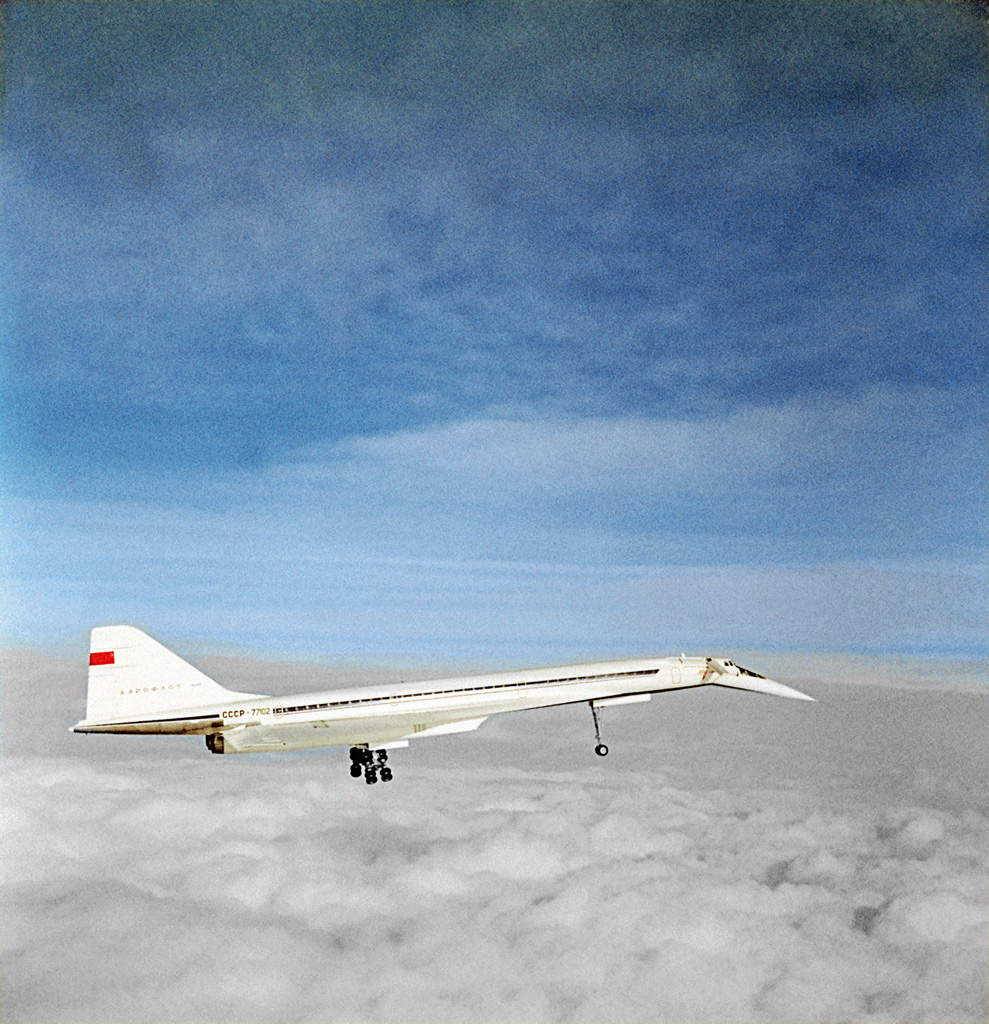 “A Tupolev Tu-144 supersonic transport in mid-air”. A Tupolev Tu-144 Charger supersonic transport during a test flight.